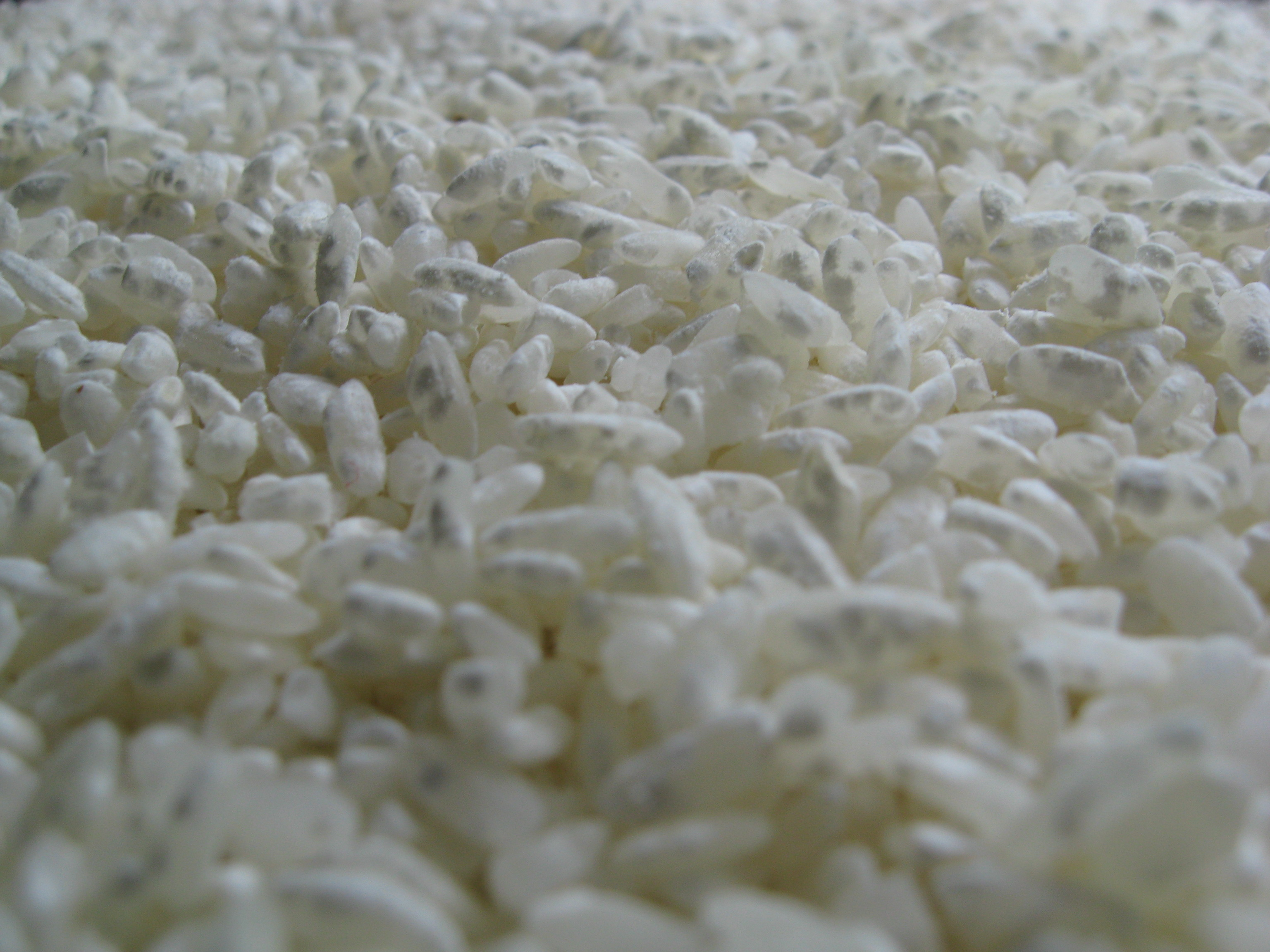 Aspergillus oryzae growing on rice